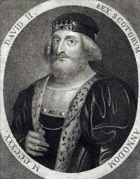 David II of scotland